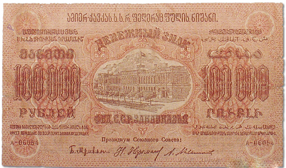 Banknote of Transcaucasian Socialist Federative Soviet Republic.